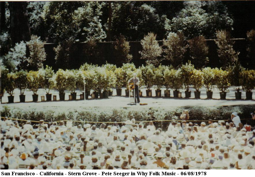 San Francisco - California - Stern Grove - Pete Seeger in Why Folk Music - 1978